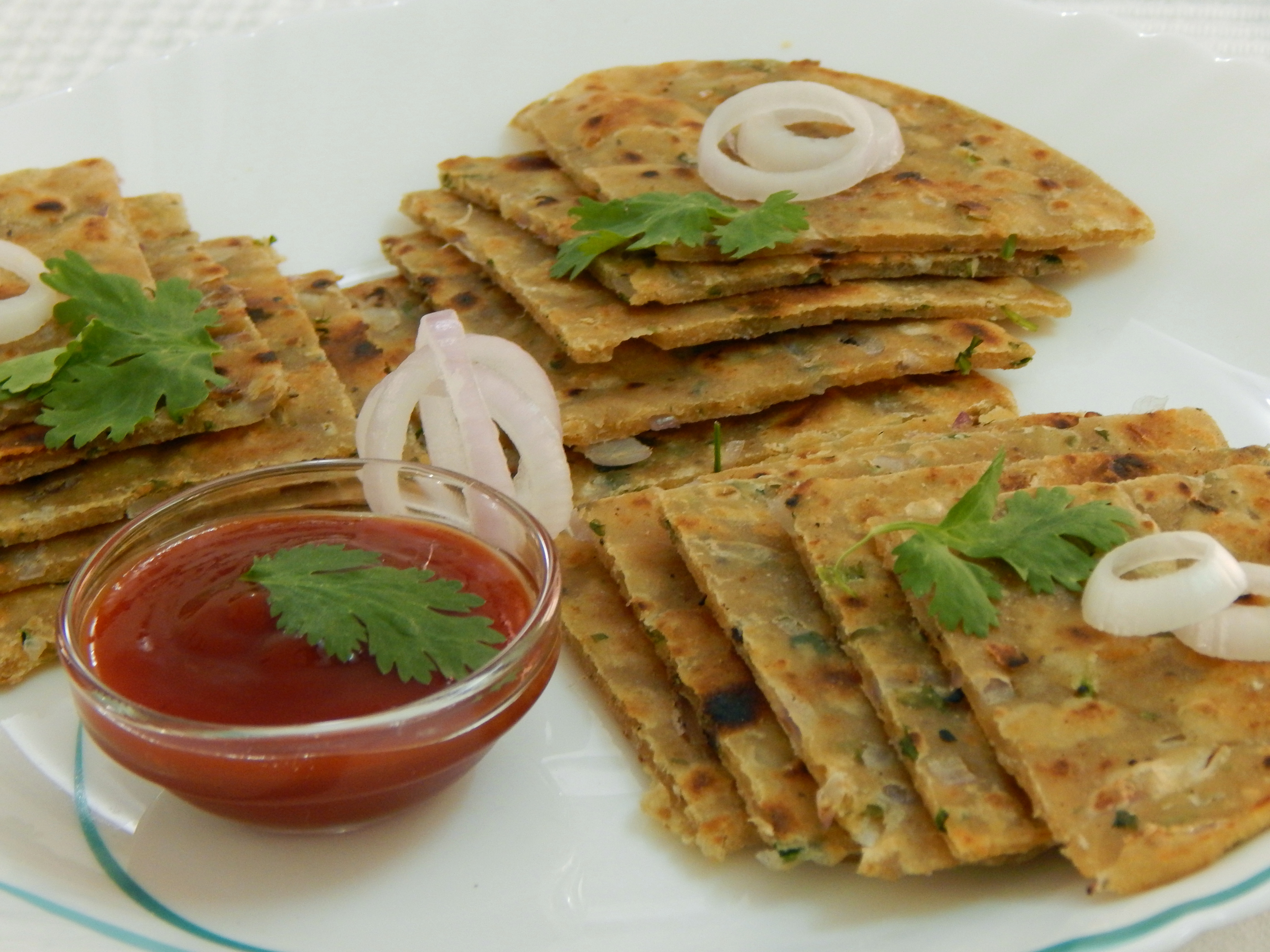 Want to have something different in breakfast ! Then try onion coriander paratha. This is not the usual onion stuffed paratha recipe but a lot easier and different recipe that makes equally tasty and delicious parathas.